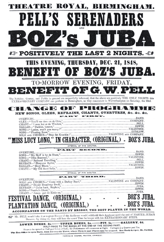 Playbill for Pell's Serenaders, featuring "Boz's Juba", for their engagement at the Theatre Royal in Birmingham